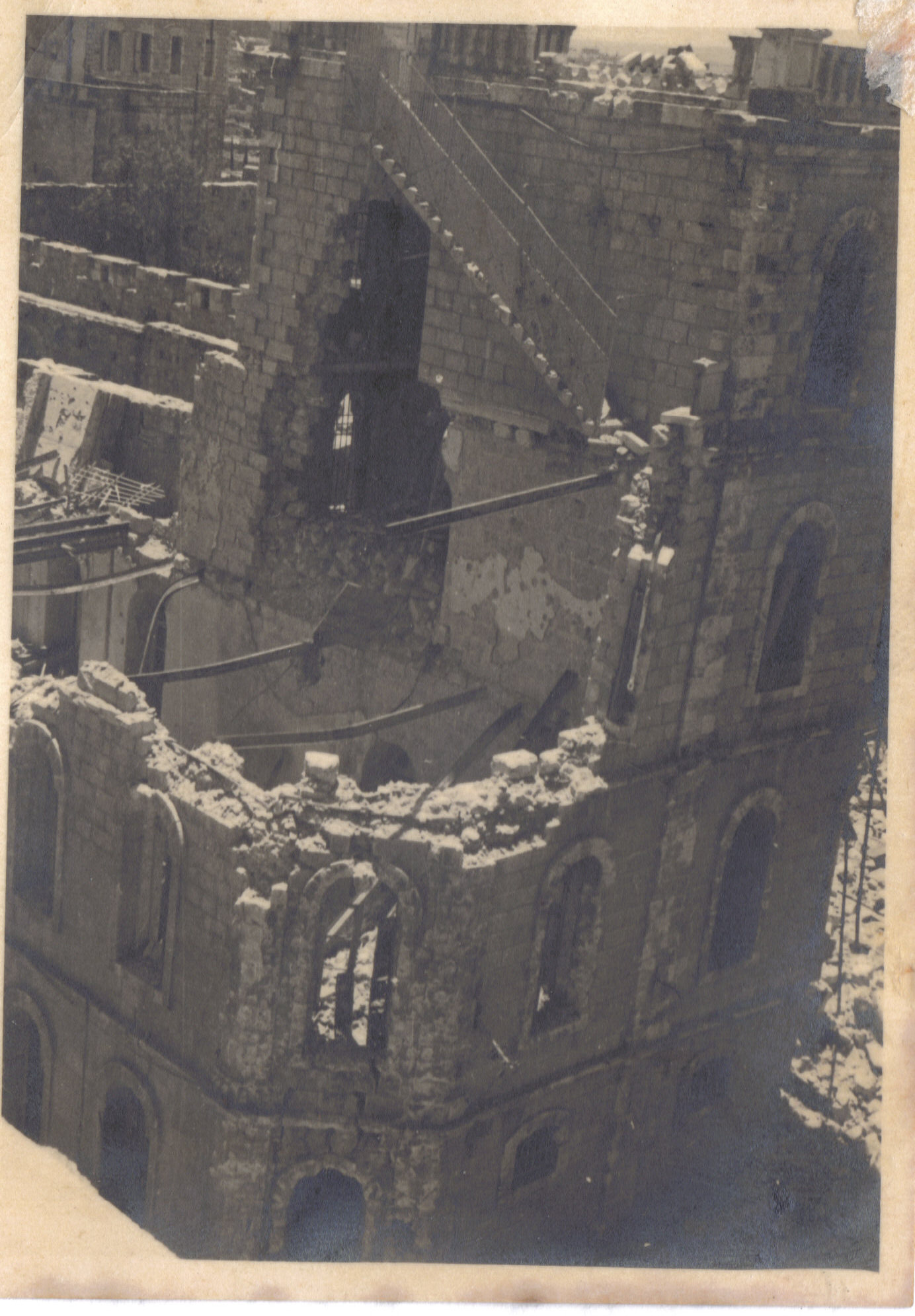 Notredam jerusalem may 1949, Architecture of Israel